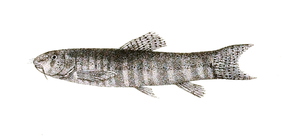 The species names / identity need verification - original names from plate are included here. The original plates showed the fishes facing right and have been flipped here. Nemacheilus beavani